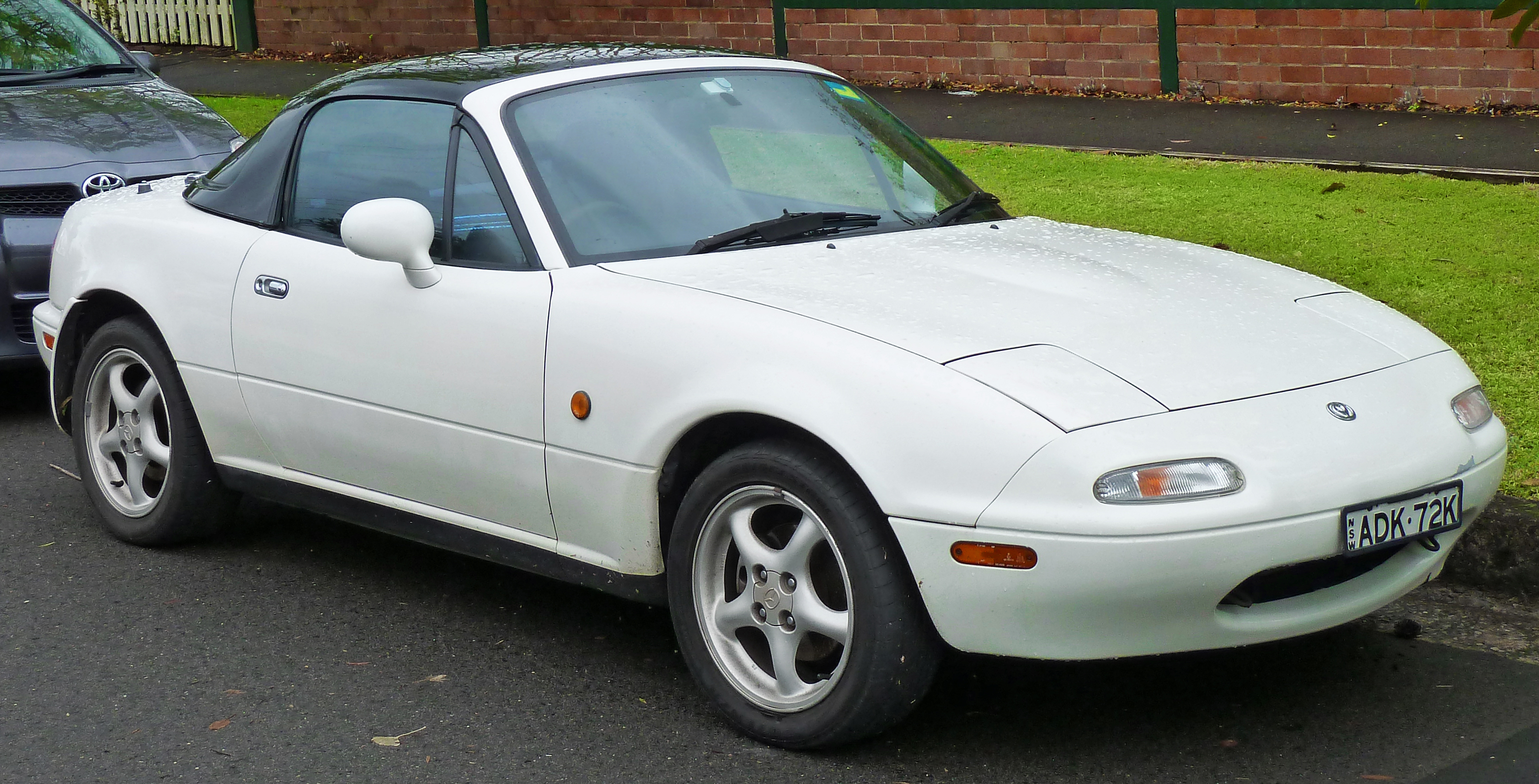 1995 Mazda MX-5 (NA Series 2) hardtop (with 1998–2000 Mazda MX-5 (NB) alloy wheels). Photographed in Gordon, New South Wales, Australia.